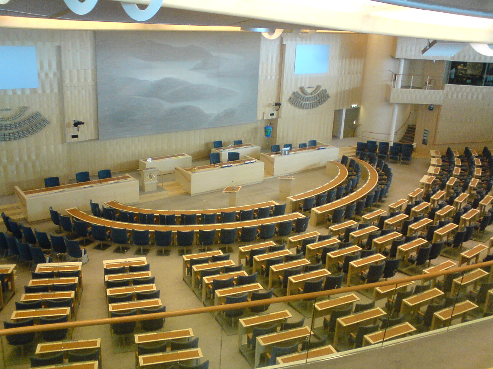 picture inside from the swedish Parliament.